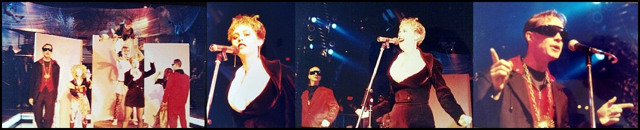 Big Bang (British Band) on stage during their Arabic Circus Tour, UK 1989-90